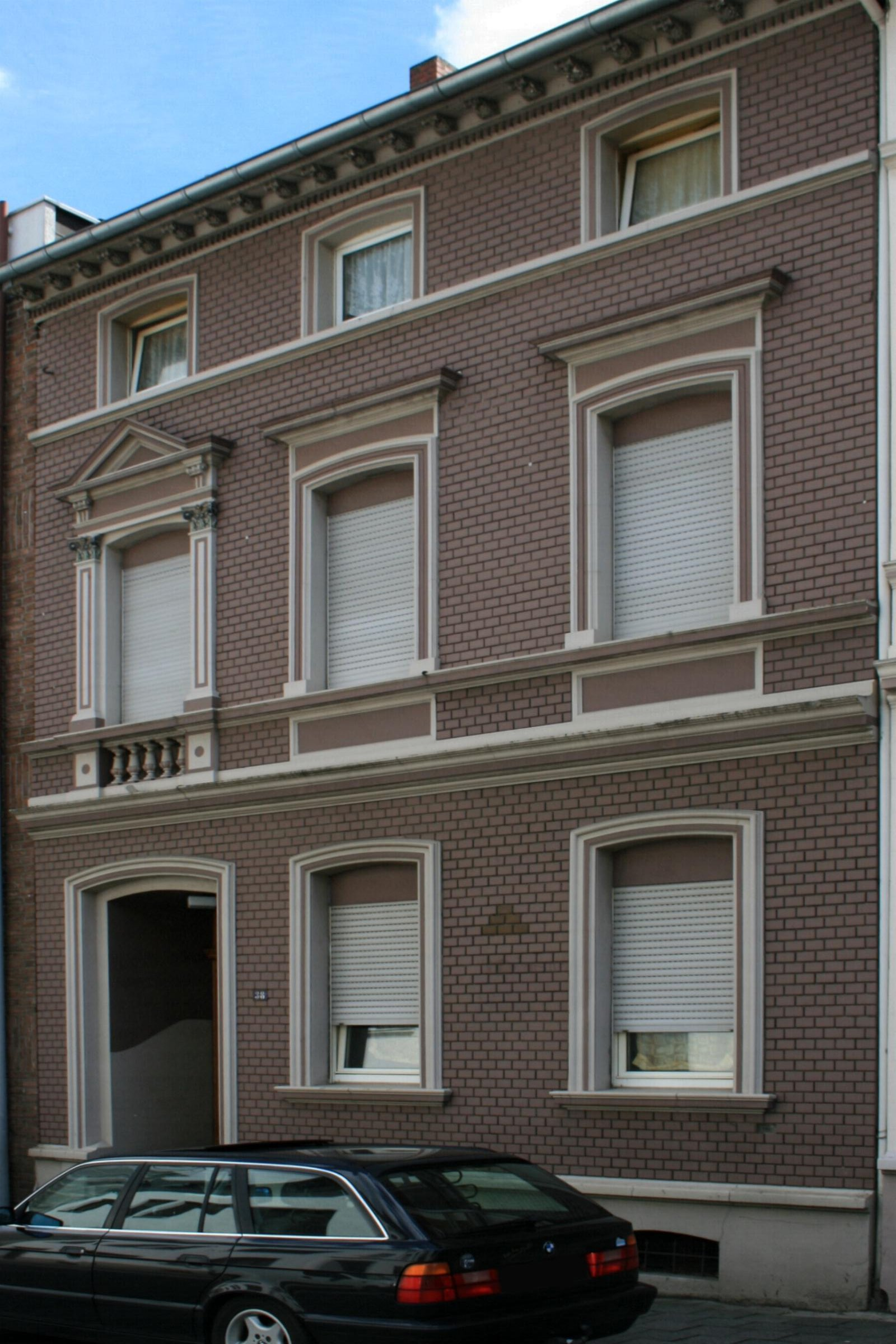 Cultural heritage monument No. Sch 020 in Mönchengladbach